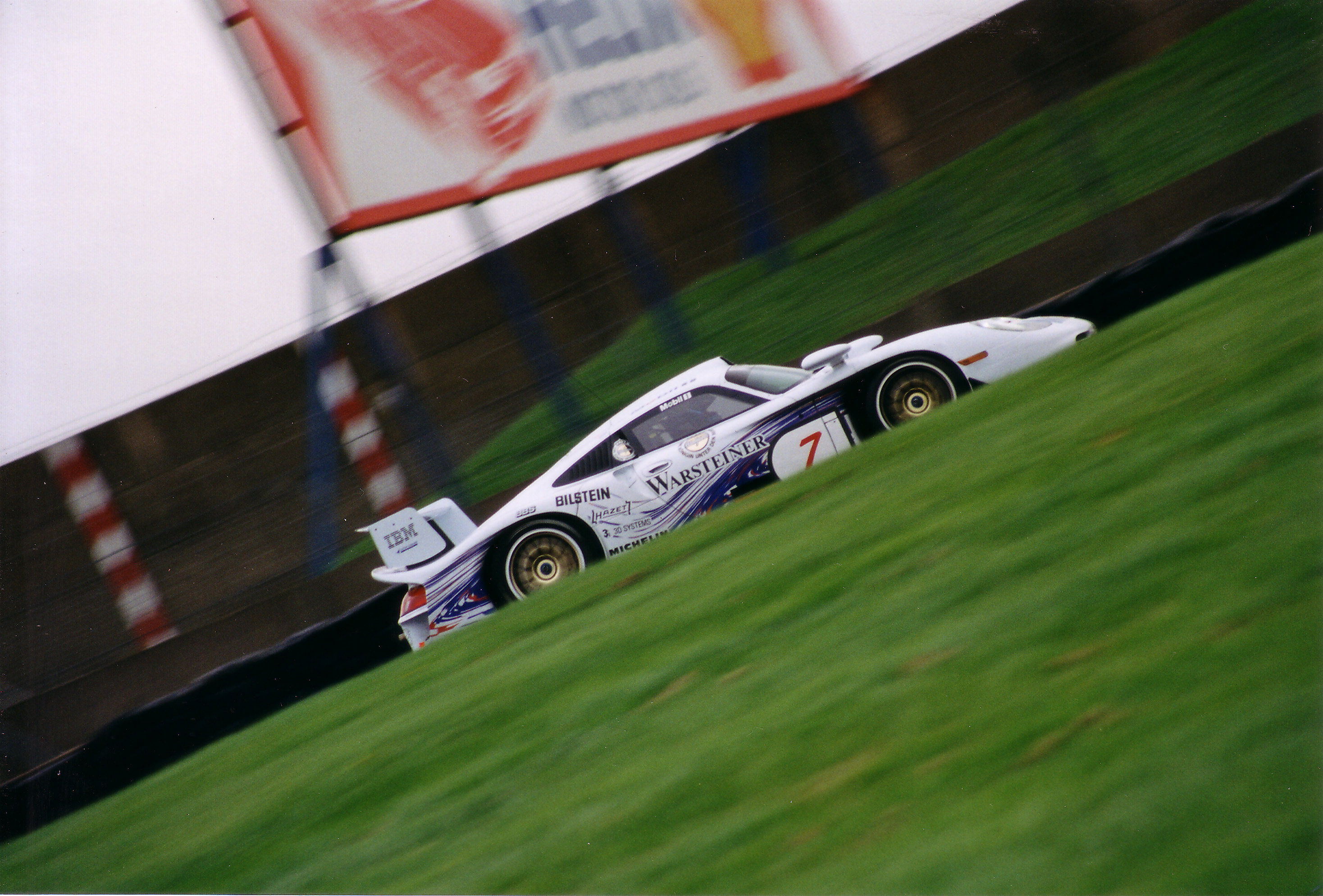 Yannick Dalmas Scanned from 35mm Canon EOS 100